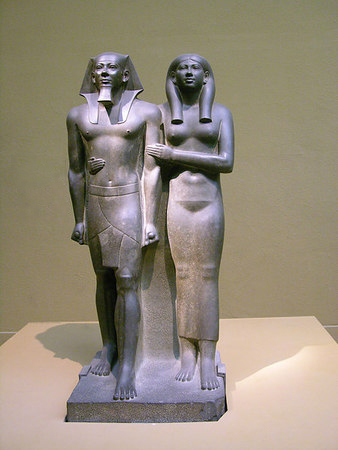 Statue of Menkaura (Mycerinos) and Queen Khamerernebty II. (Chamerernebti II.). From the Giza Valley Temple of Menkaura, made during his reign (circa 2548-2530 B.C.) Graywacke. Now residing at the Museum of Fine Arts, Boston. Museum Expedition 11.1738.